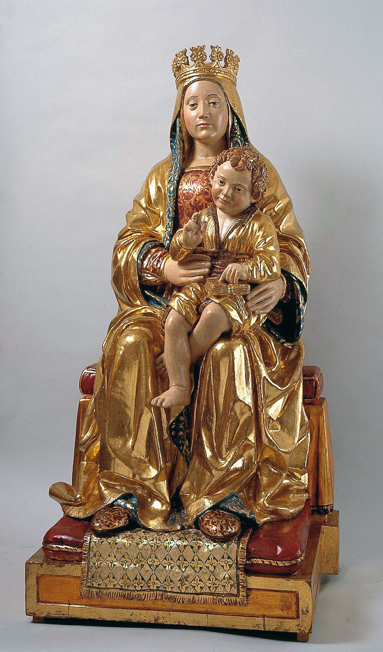 Pietro Bussolo "Holy Mary and Child", second half of XV century, Painted and gilted wood. Piano di Bovegno - BS (Italy)